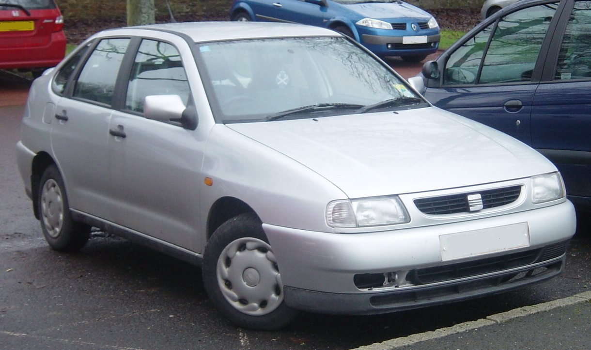 created by Mazurka